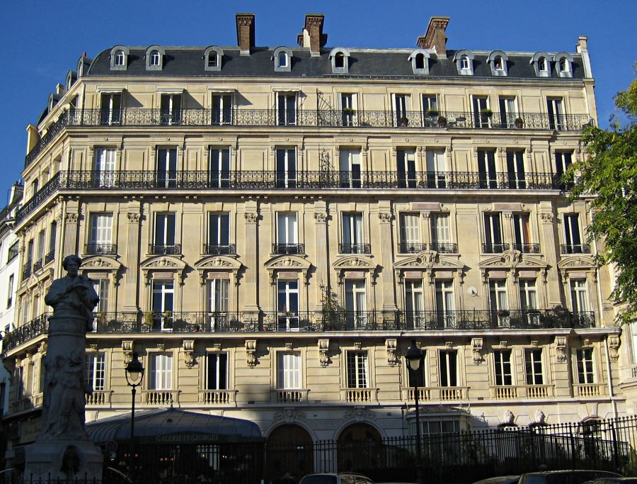 Place Saint-Georges, Paris IXe. The statue is a bust of caricaturist Paul Gavarni.